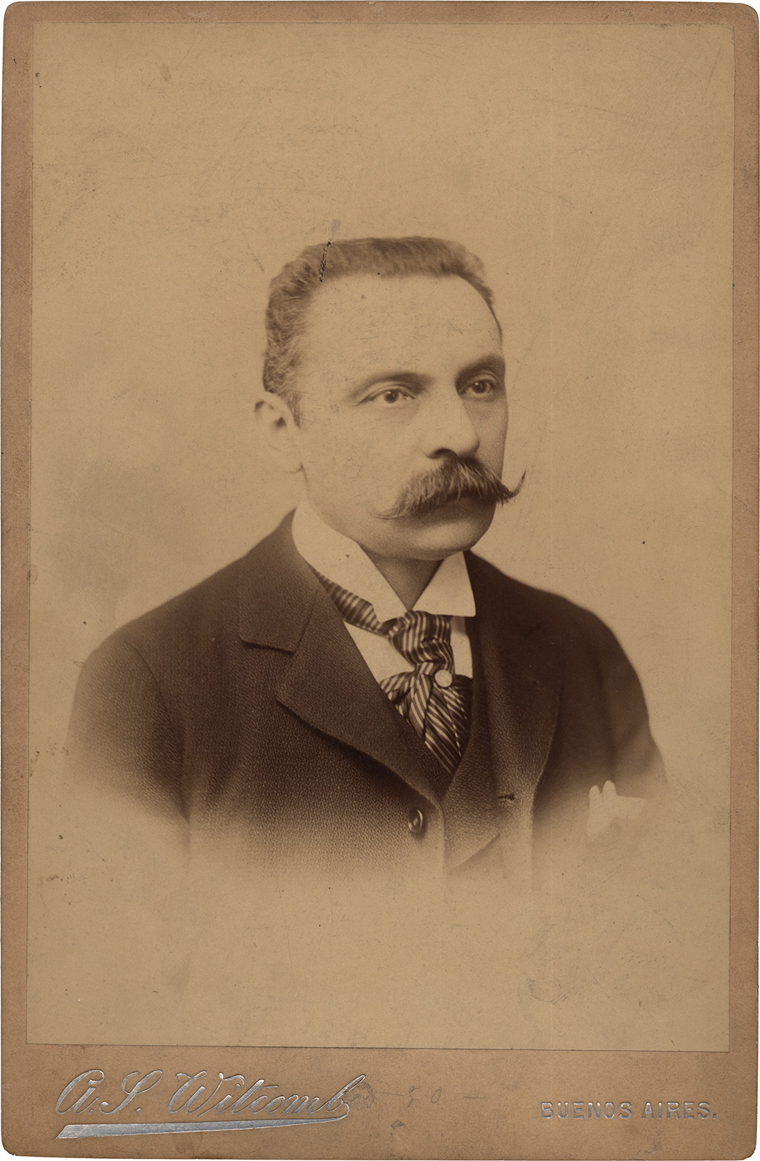 Portrait of Carlo D'Ormeville, librettist (1840-1924). Photo by A.S. Witcomb, Buenos Aires, before 1924.